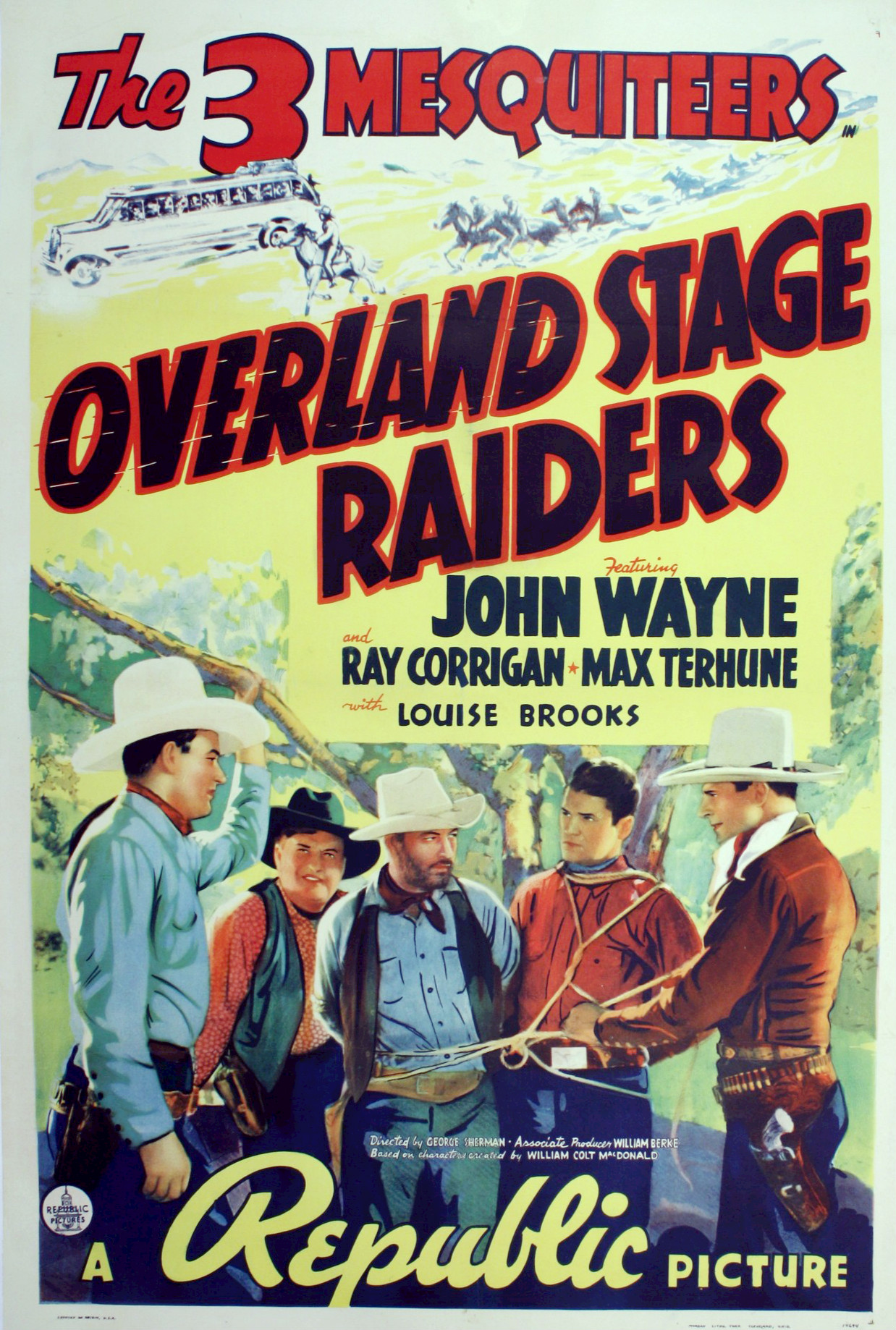 Poster for the 1938 film Overland Stage Raiders. There are no copyright marks as can be seen at the links. At bottom left is Country of origin USA. At bottom right is Morgan Litho Company leveland USA-they printed the poster-and 14694, which liekly has to do with the print job for the poster.